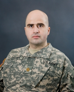 Major Nidal Malik Hasan, USA, Fort Hood shooter